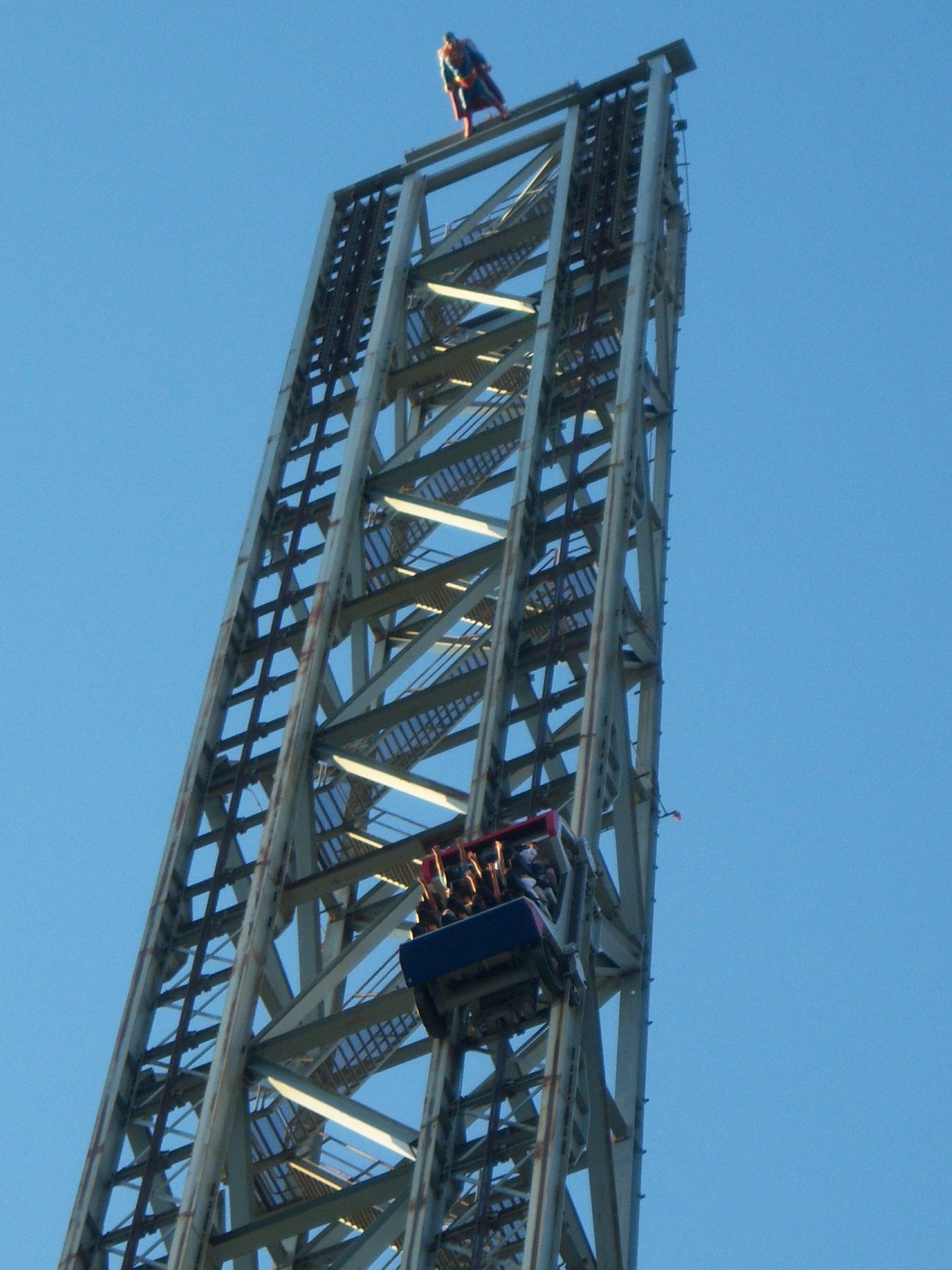 Superman: The Escape is a launched shuttle roller coaster loated in the Samurai Summit area of Six Flags Magic Mountain in Valencia, California that opened in 1997. It is nearly identical to Tower of Terror, which opened two months prior in Australia. These two coasters were the first to utilize Linear Synchronous Motors (LSM - A form of Magnetic Levitation) technology to propel vehicles to top speed. Superman: The Escape was for a while the tallest roller coaster in the world, although its drop was the same as Tower of Terror. It was also tied with Tower of Terror as fastest roller coaster in the world. Today, it is fifth fastest. In 2001 the speed record was taken by Dodonpa in Japan. In 2003 Superman's height record was taken by Top Thrill Dragster at Cedar Point. The coaster has two parallel tracks. Riders are accelerated horizontally from 0 to 100 mph (160.9 km/h) in approximately 7 seconds (about 0.65 g). The track then pitches up 90 degrees to the vertical. Riders climb this vertical section, stop and follow the same path back to the start. During the entire vertical section of the ride, riders are completely weightless for about 6.5 sec, half going up and half coming back down. Contest Entry Challenge You Lost 2-10